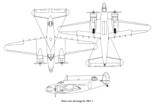 Three-side-drawing of a Lockheed PBO-1 Hudson, used by the U.S. Navy (BuNos 03842-03861), mostly by patrol squadron VP-82.